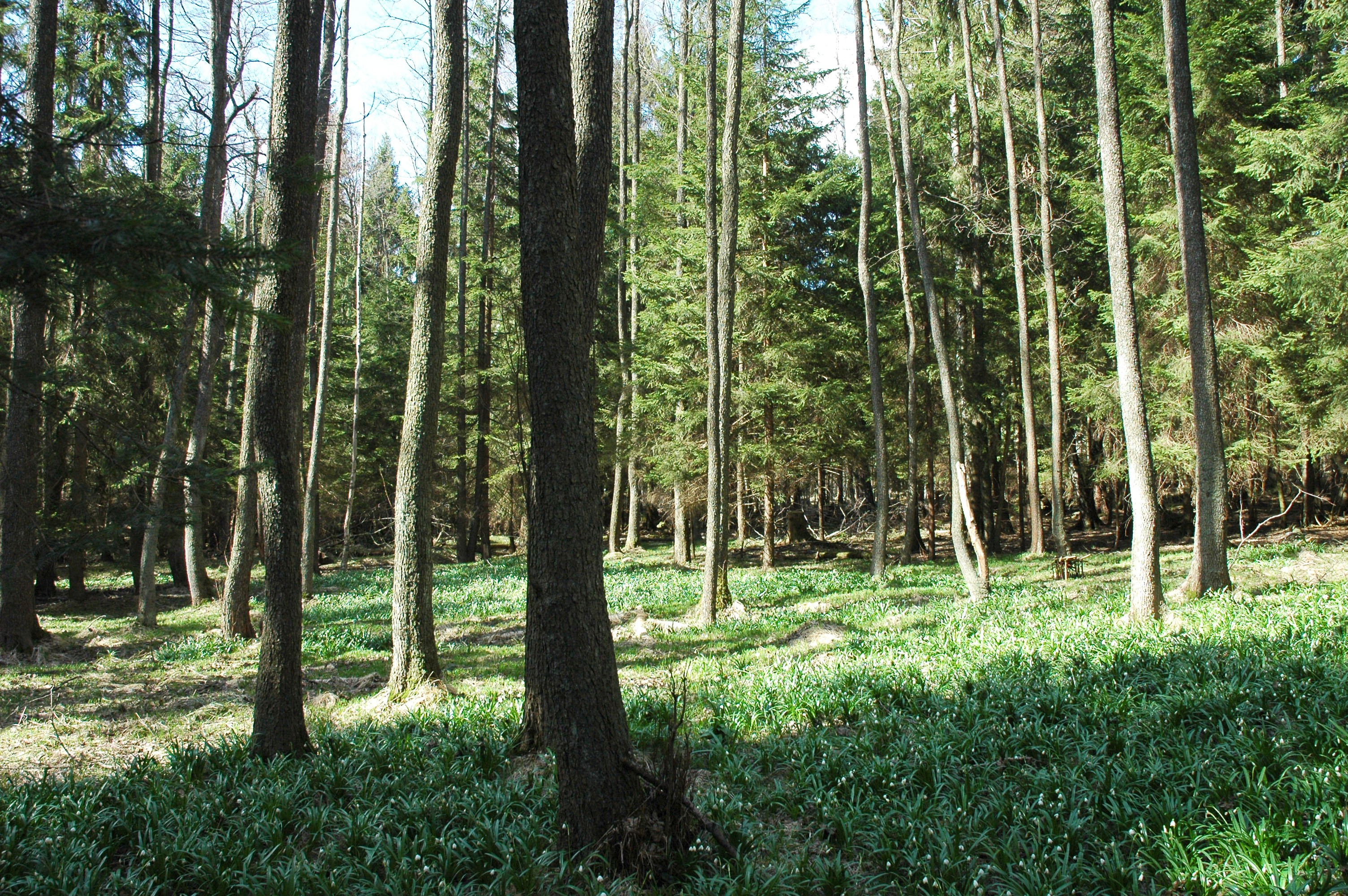 Natural monument Vršovská olšina in Chrudim District, Czech Republic